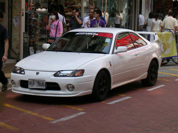 Photograph of a modified 1998 Toyota Trueno BZ-R during my vacation to Kong Kong in 2005.